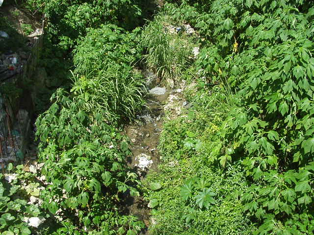 Tacagua River. Libertador Municipality, Capital District (Caracas), Venezuela.